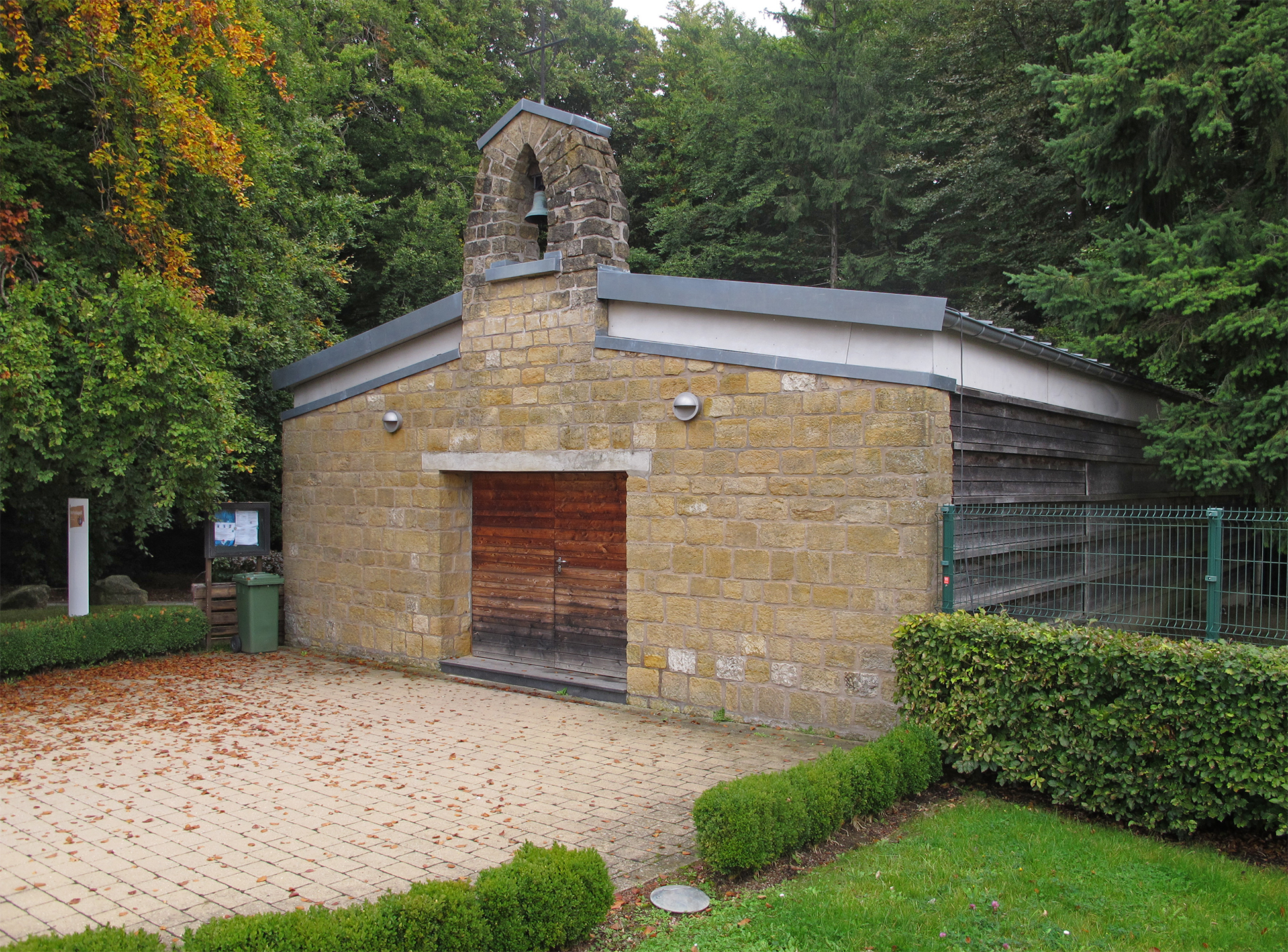 Chapel of Senningerberg, Luxembourg